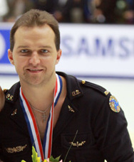 Tatiana Volosozhar / Stanislav Morozov (3nd) at the 2009 Cup of China.